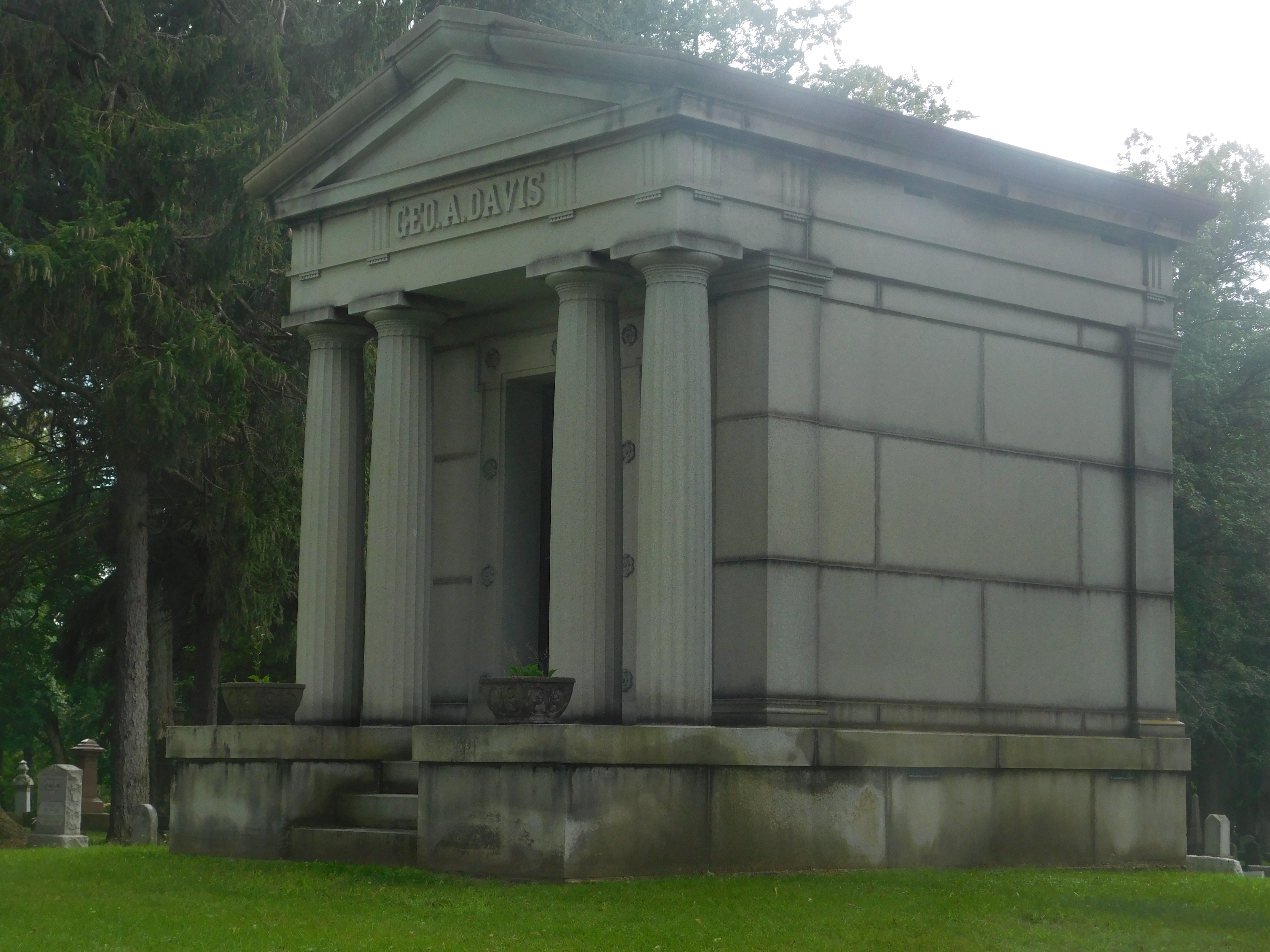 The mauseoleum of George "Iron" Davis in Lancaster (town), New York.